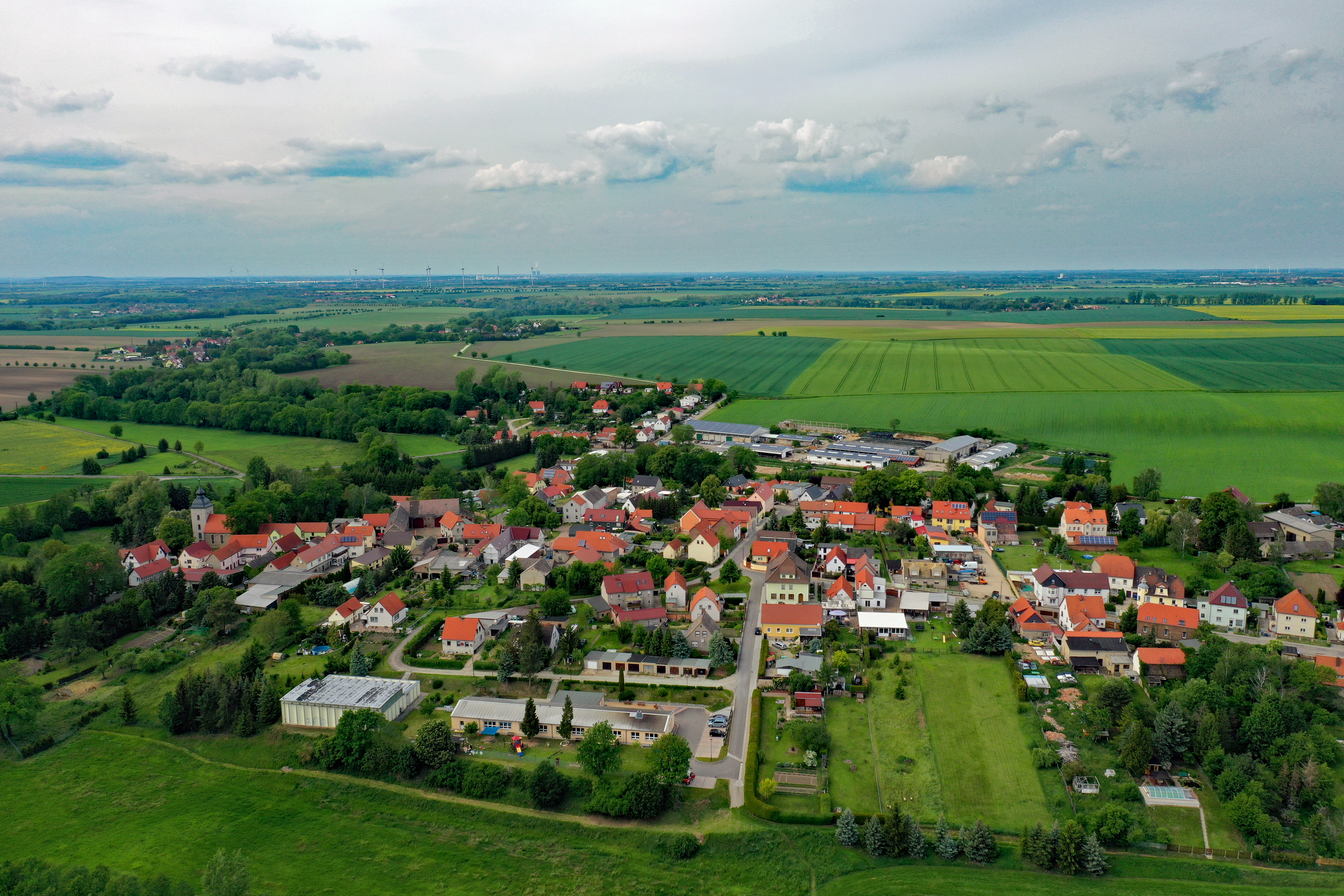 Muschwitz (Lützen, Saxony-Anhalt, Germany)